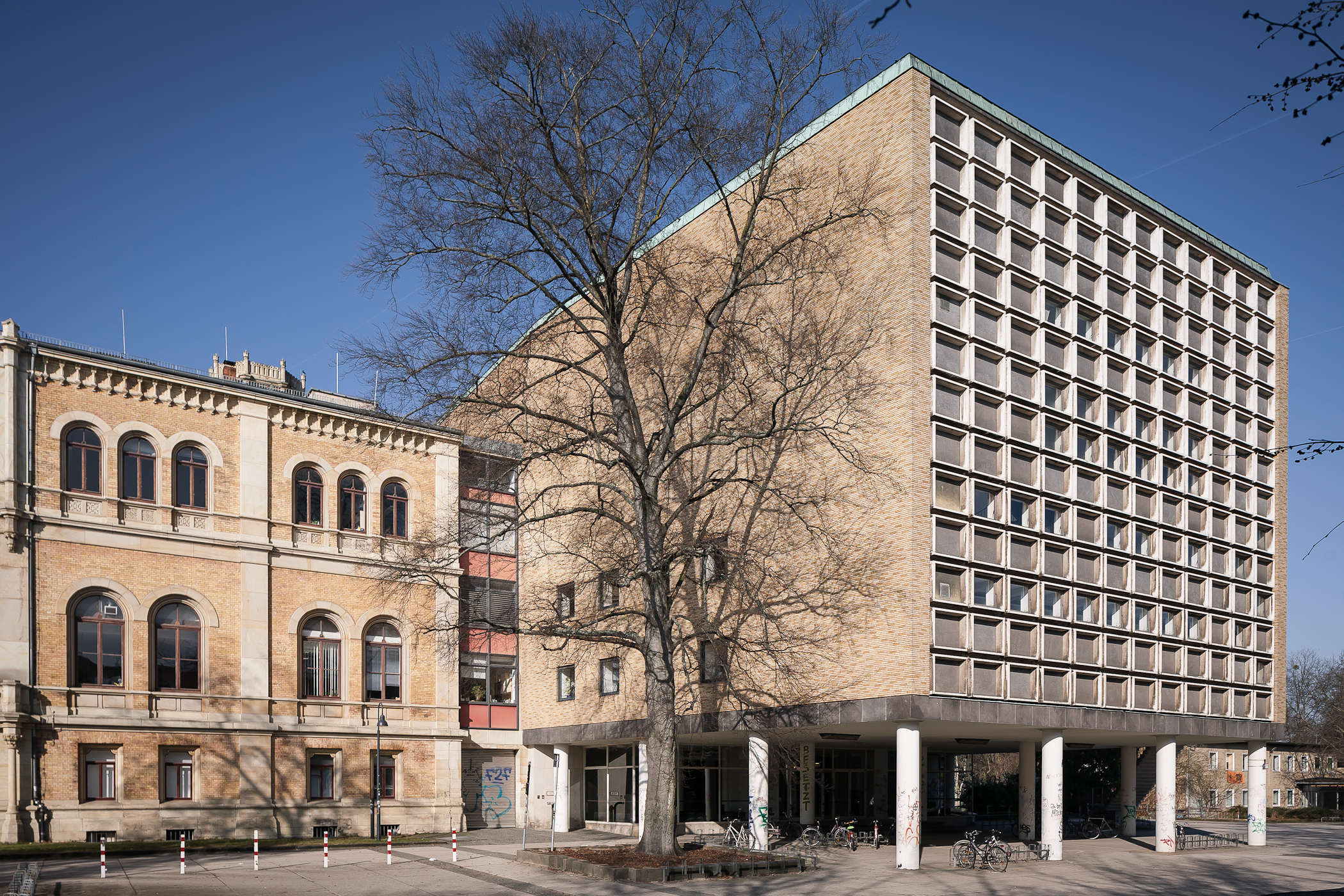 Audimax building of the University of Hanover, Germany. It is located at the eastside of the main building ("Welfenschloss") and was completed in 1958.